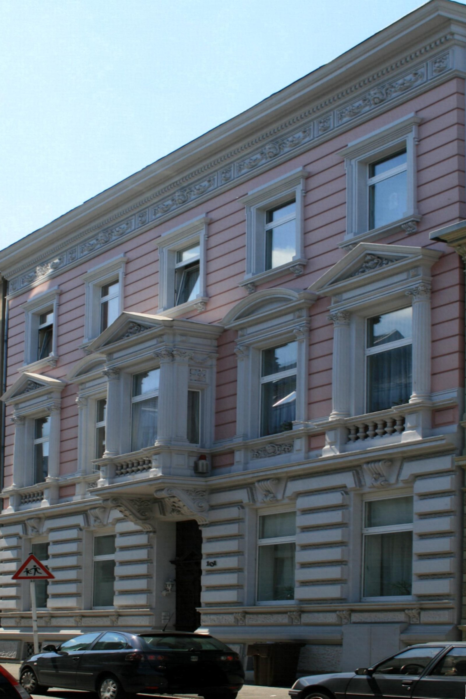 Cultural heritage monument No. R 051 in Mönchengladbach